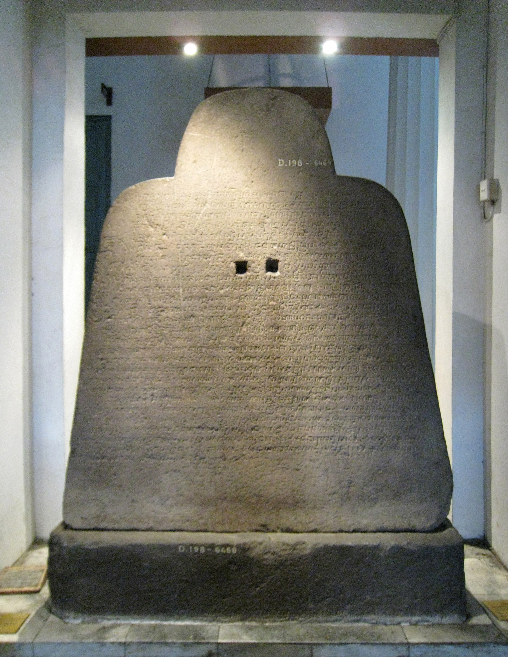 The back side of the Amoghapasa statue carved with inscription dated 1208 Saka (1286 CE), it was presented by King Kertanegara of Singhasari to Malayu Dharmasraya Kingdom in Sumatra. Discovered in Padang Roco.